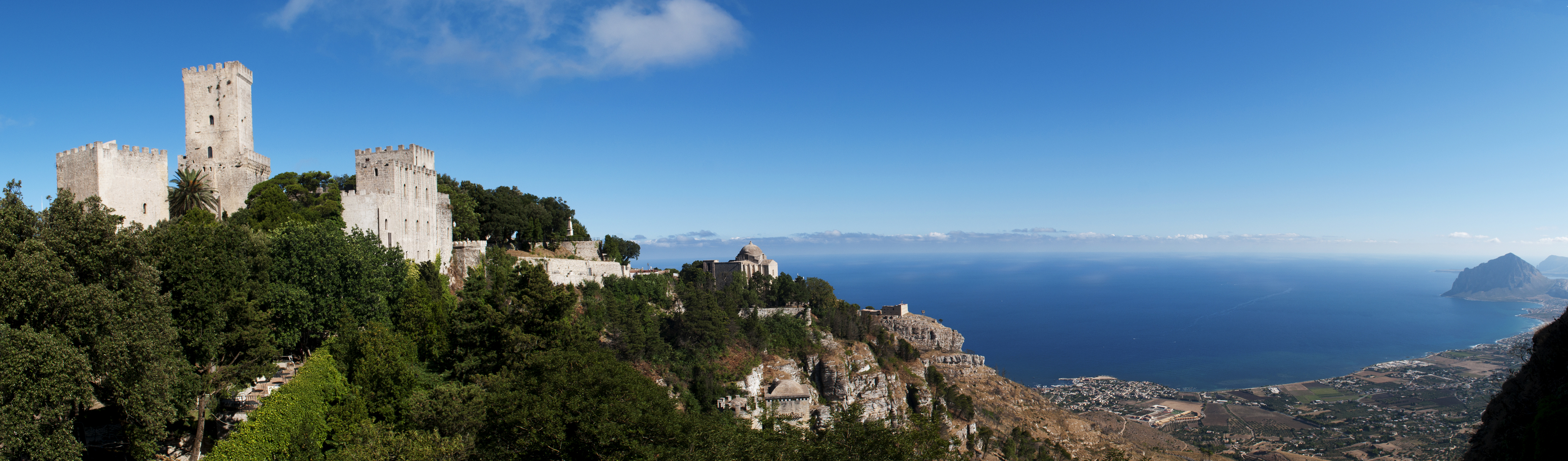 Panorama from Erice, Sicily, Italy